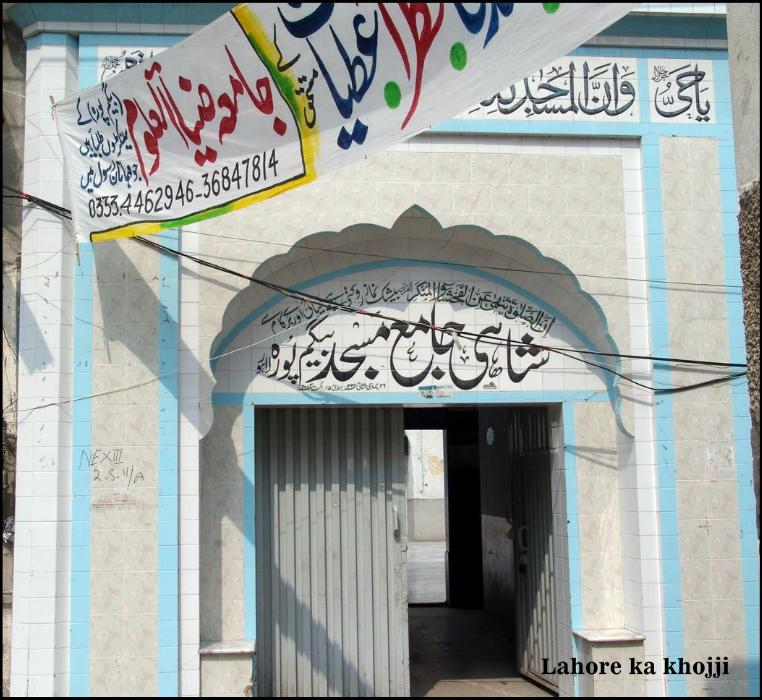 Begampura Mosque This mosque, on the eastern side of University of Engineering and Technology, was built by Nawab Zakariya Khan, governor of Lahore, in the name of his mother. Begampura MosqueIt is locally known as Begam Shahi Mosque (also the appellation for Maryam Zamani Mosque outside the fort). In government records it is known as “the mosque with glazed tile work at Begampura”. The harmonious mosque of Begampura with a bangladar roof and green glazed tiles painted with elegant floral designs is a unique monument of the late Mughal period at Lahore. The mosque has a double aiwan, which is its most unique feature among other mosques of Lahore. The original surviving part of the mosque is its prayer chamber having five arched openings in the front. It is an oblong structure measuring 70 feet 8 inches by 41 feet 6 inches and having two long bays, divided by means of wide arches into four inter-communicating compartments, two side rooms and a central chamber. The ceiling of these compartments is created by means of vaultings, the façade of the central compartment has been given the shape of a concave curvilinear with a rib in the centre. The three arched openings on the north and south sides, now blocked, originally opened in the courtyard. Inside the chamber, the Qibla wall has five niches. Instead of the usual central niche being larger, the two adjoining niches on either side are bigger in size instead, which is the most unusual feature of this mosque. On the east of the aiwan, lies a large courtyard of considerable dimensions. Of the surface ornamentations, the revetment consisting of square glazed tiles of yellow colour is prominent. The façade of the prayer chamber has inscriptions in glazed tiles having the Kalima and a Quranic verse.